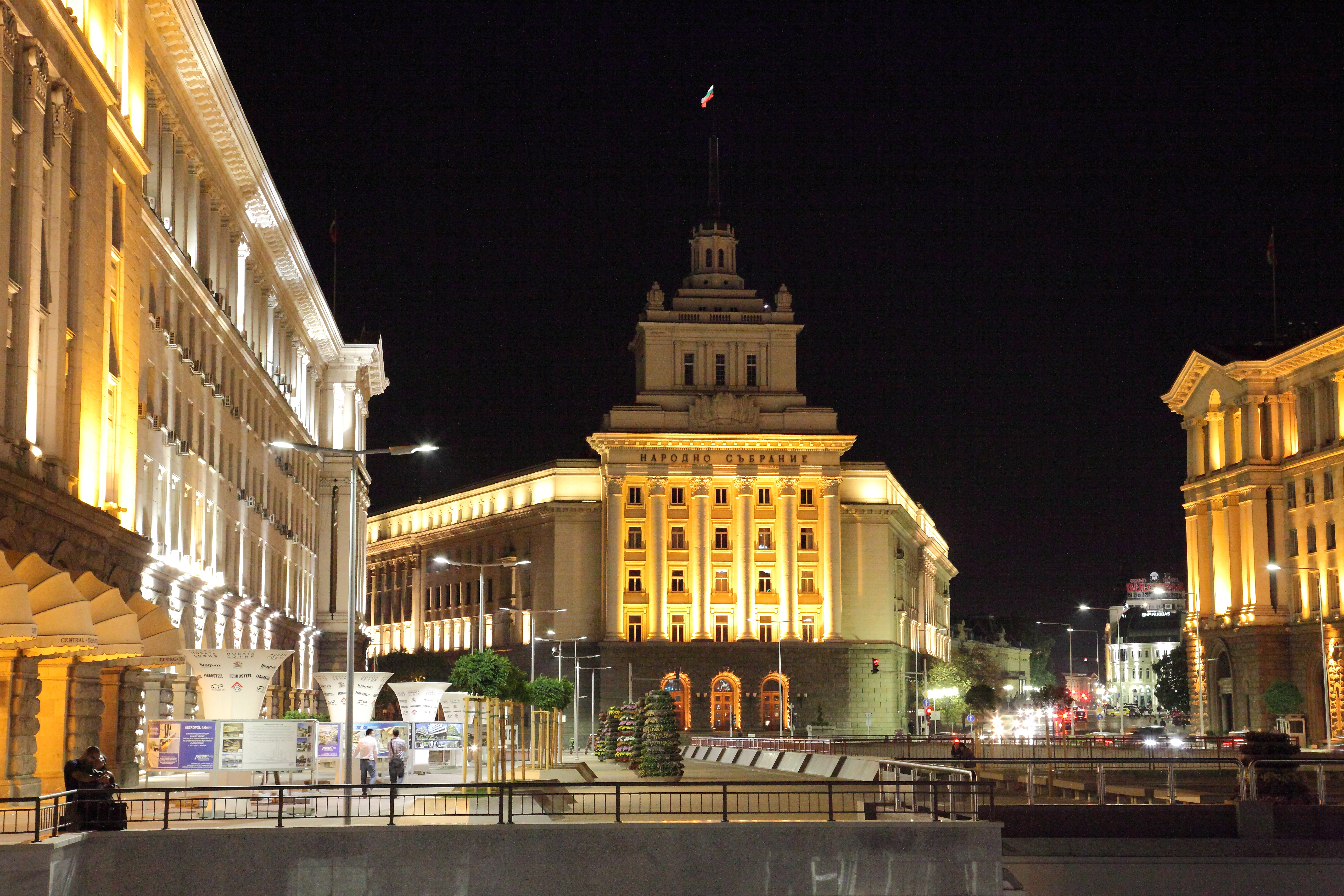 Independence square , Sofia at night